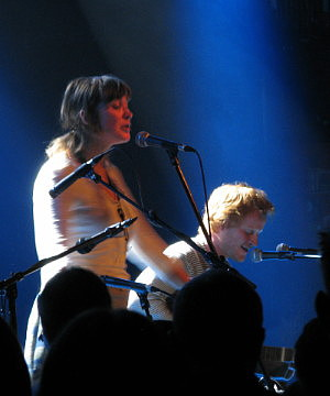 The Czech Republic indie band DVA performing at the Lucerna Music Bar in Prague, CZ, on November 14, 2011.